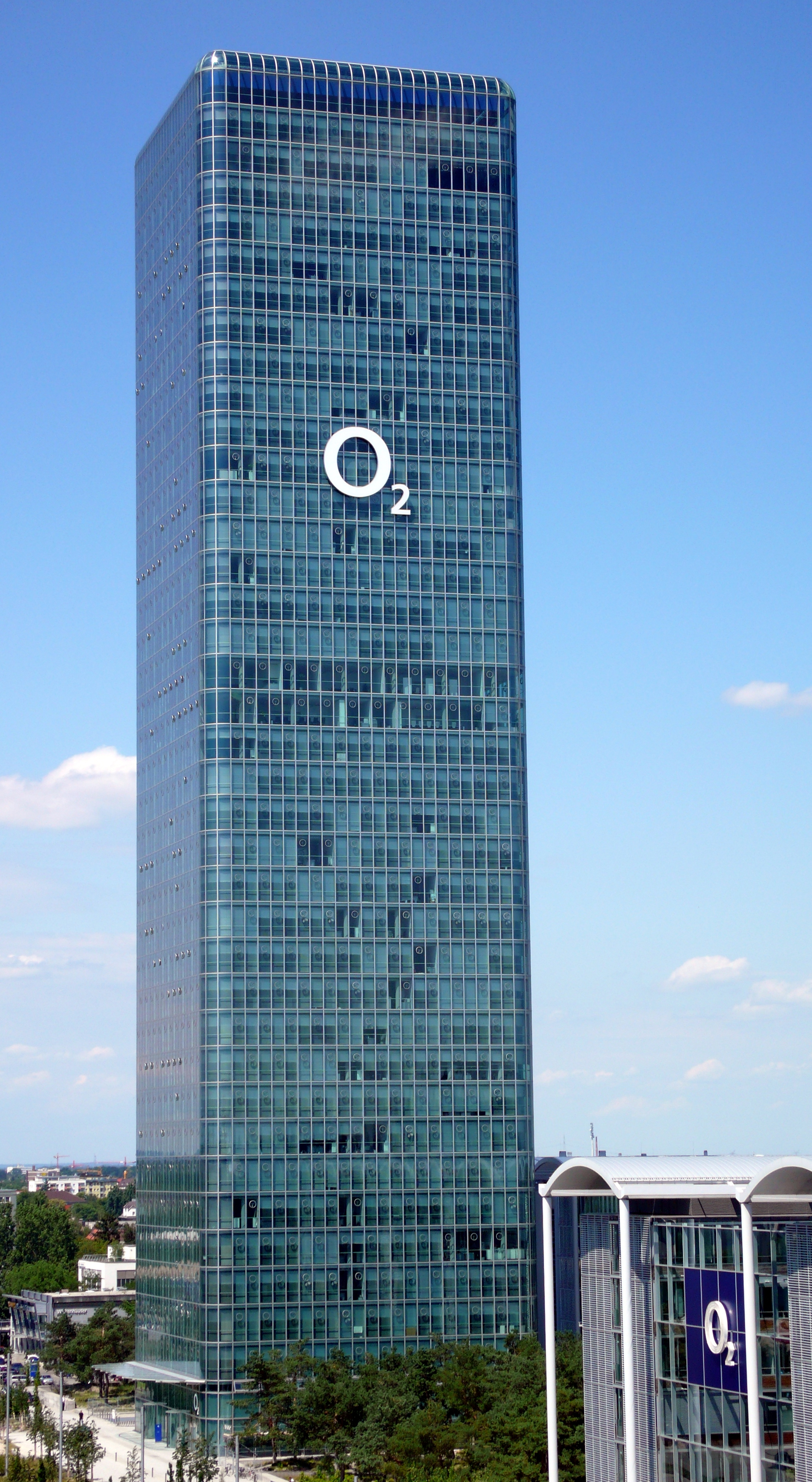 Skyscraper "Uptown München" in Munich, Bavaria